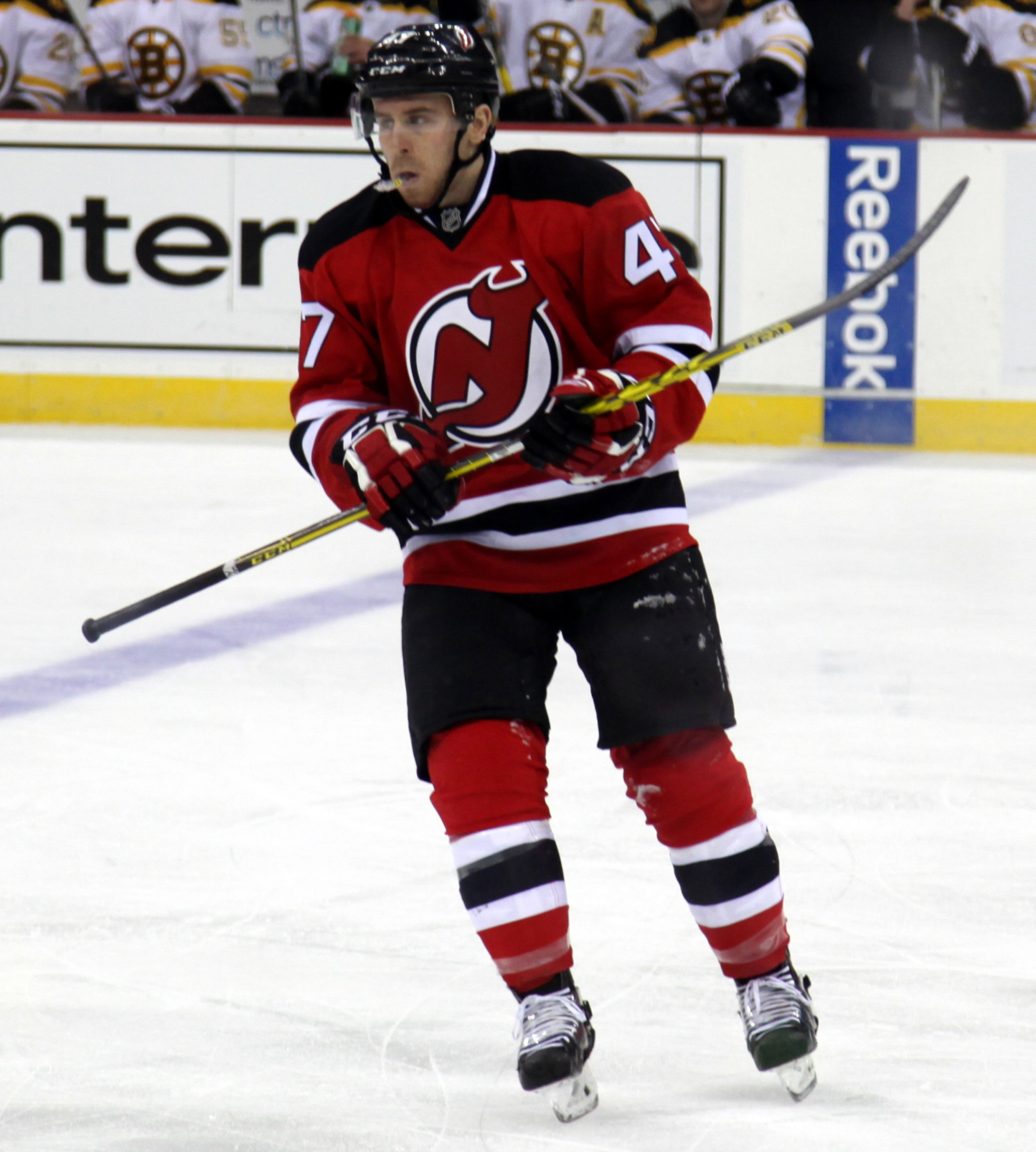 David Warsofsky in March 2016.